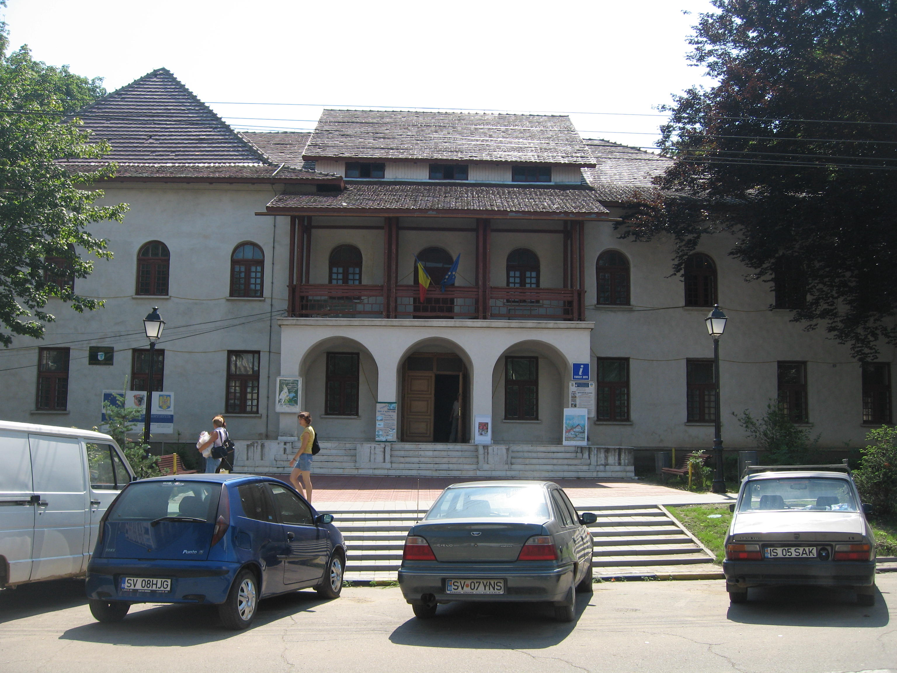 The Natural Sciences Museum in Suceava.